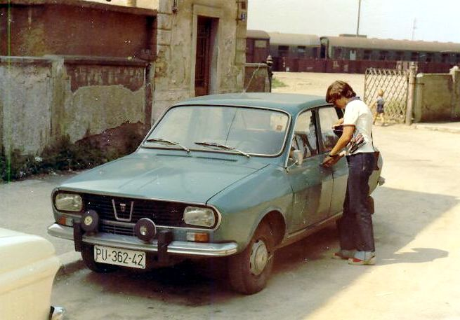 An old photo of a Dacia 1300 “Berlina” (a Renault 12 built under Romanian license) from between 1969 and 1979.